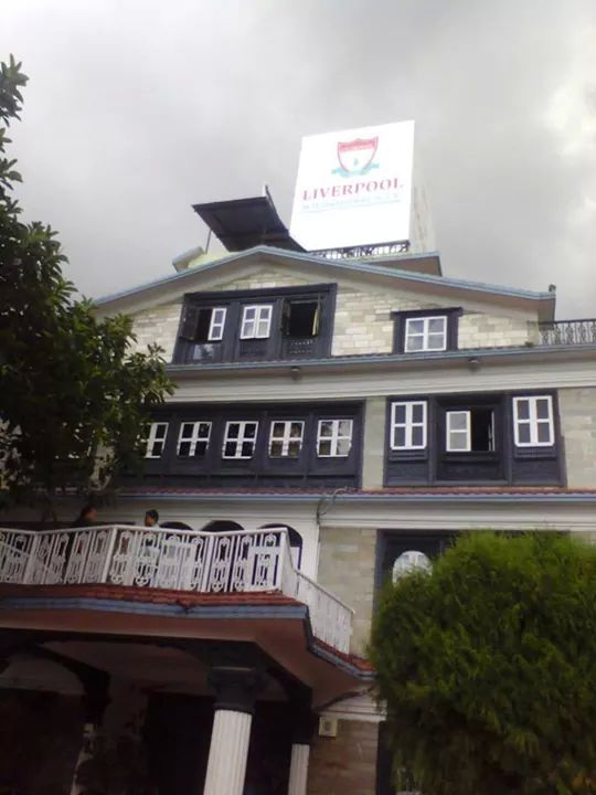 This is an image of the administrative building of Liverpool International College.